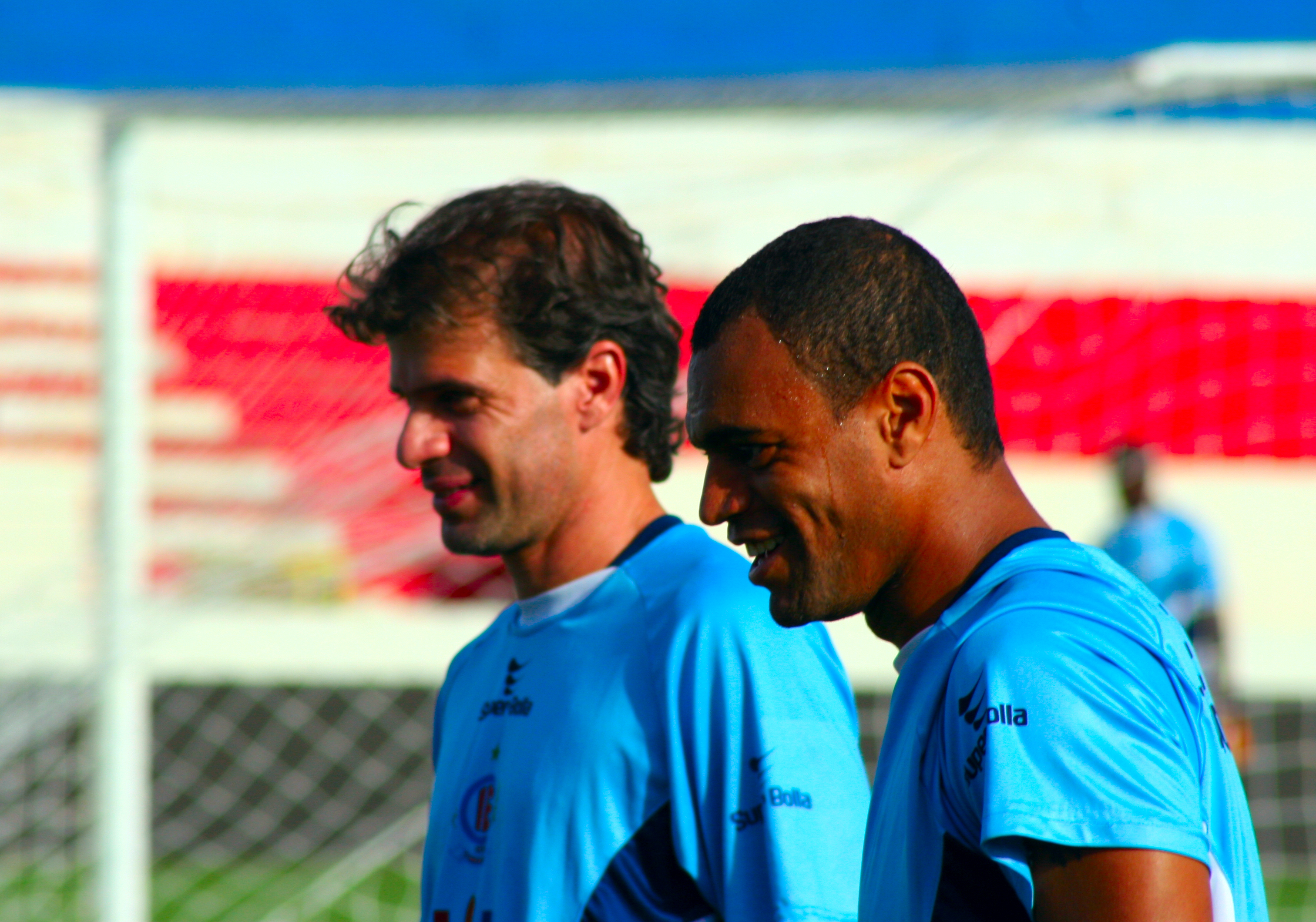 Túlio and Denílson at Itumbiara's practice.